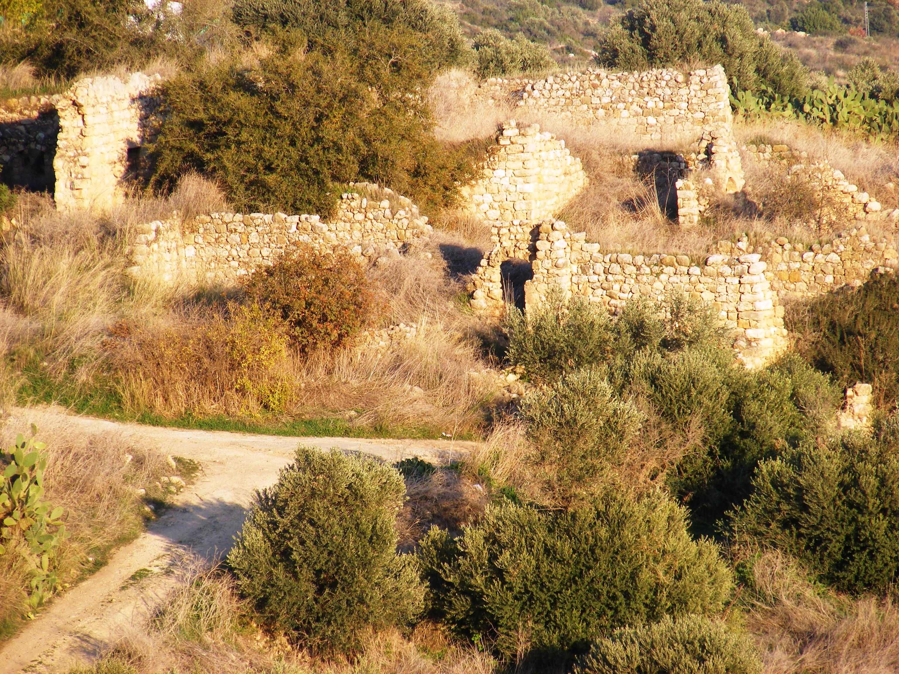 Archeological sites of Israel